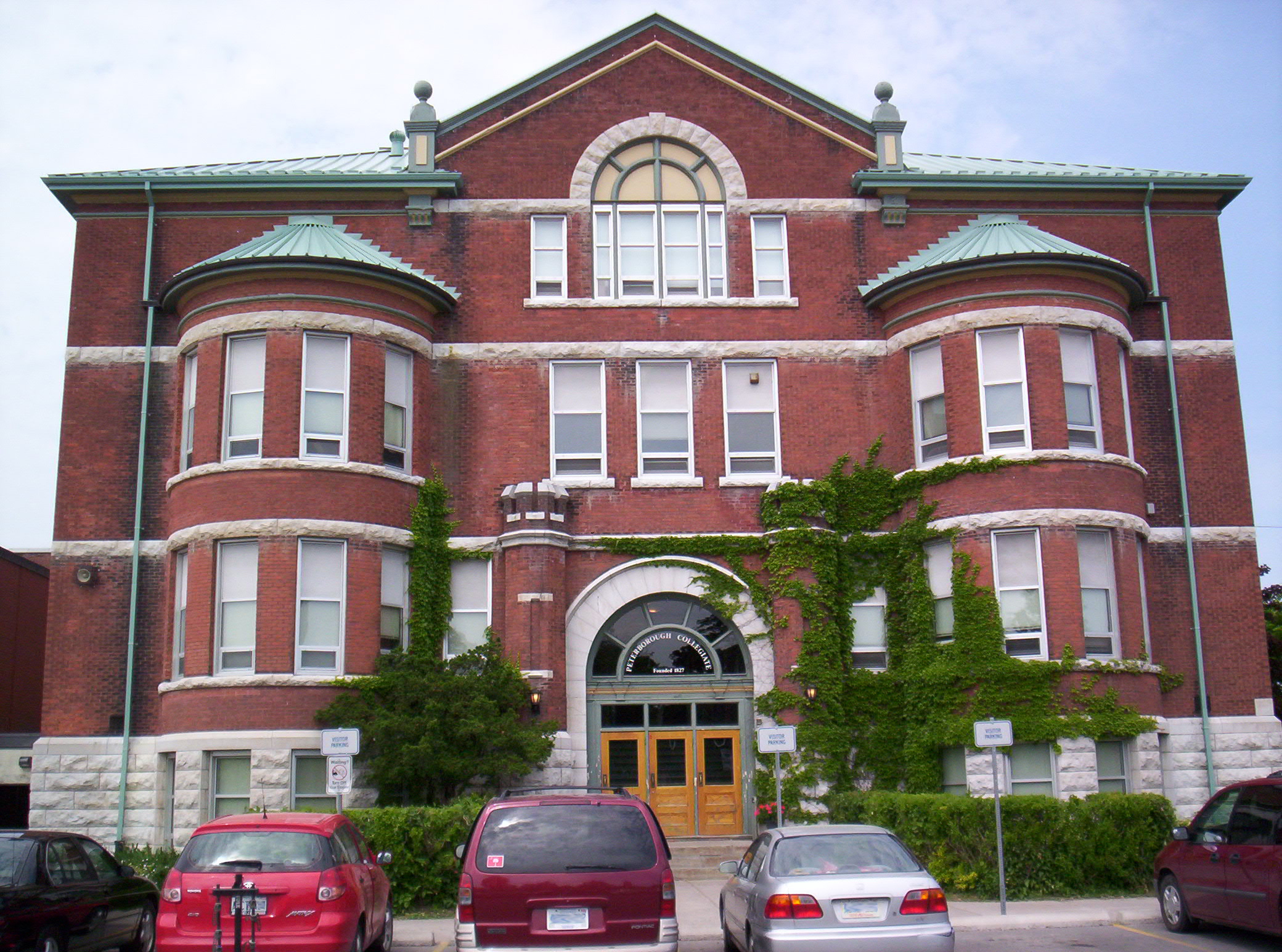 The front of Peterborough Collegiate and Vocational School.